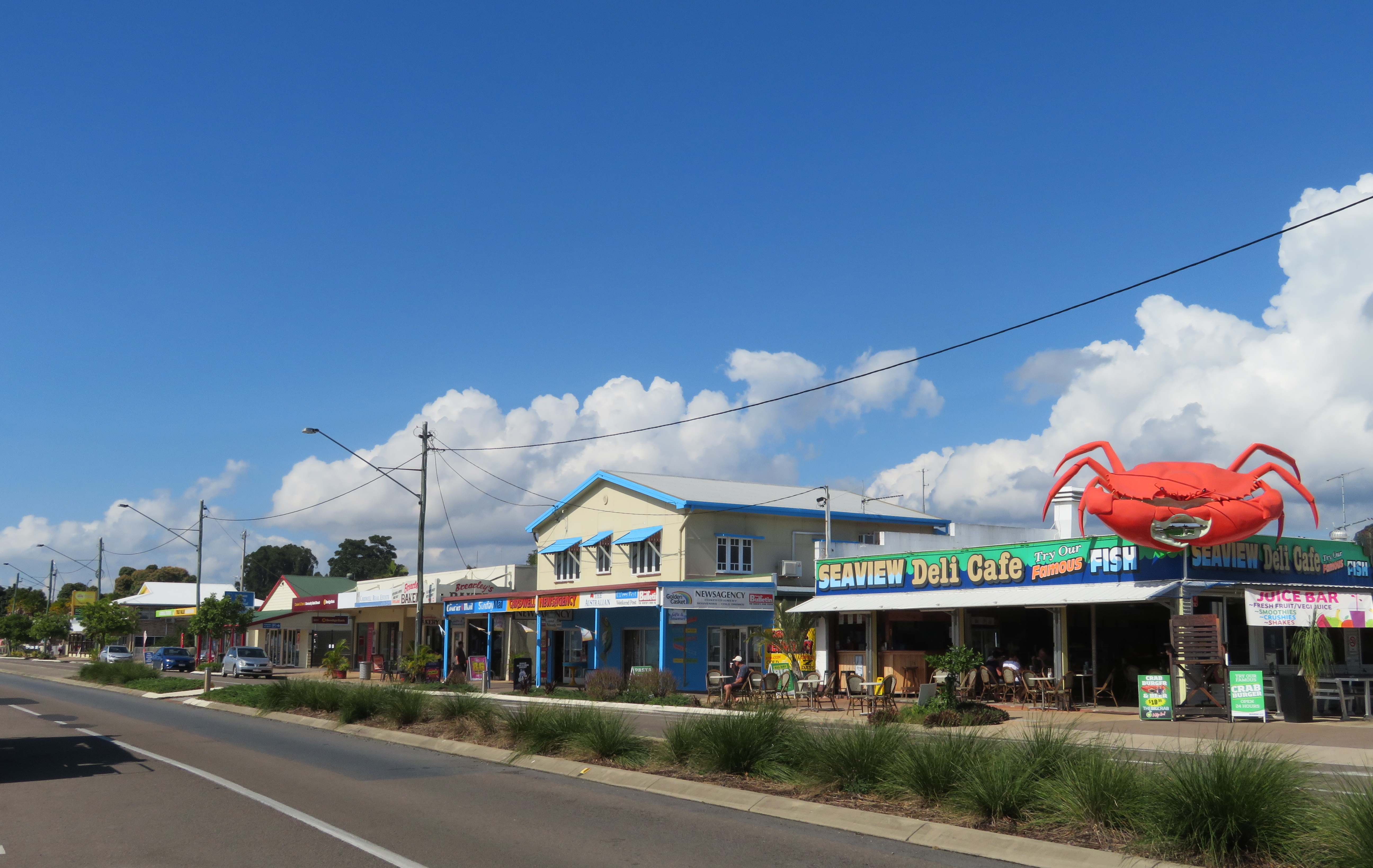 Victoria Street, Cardwell, Queensland, Australia